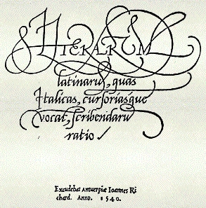 Gerardus Mercator: title page of Literarum Latinarum.